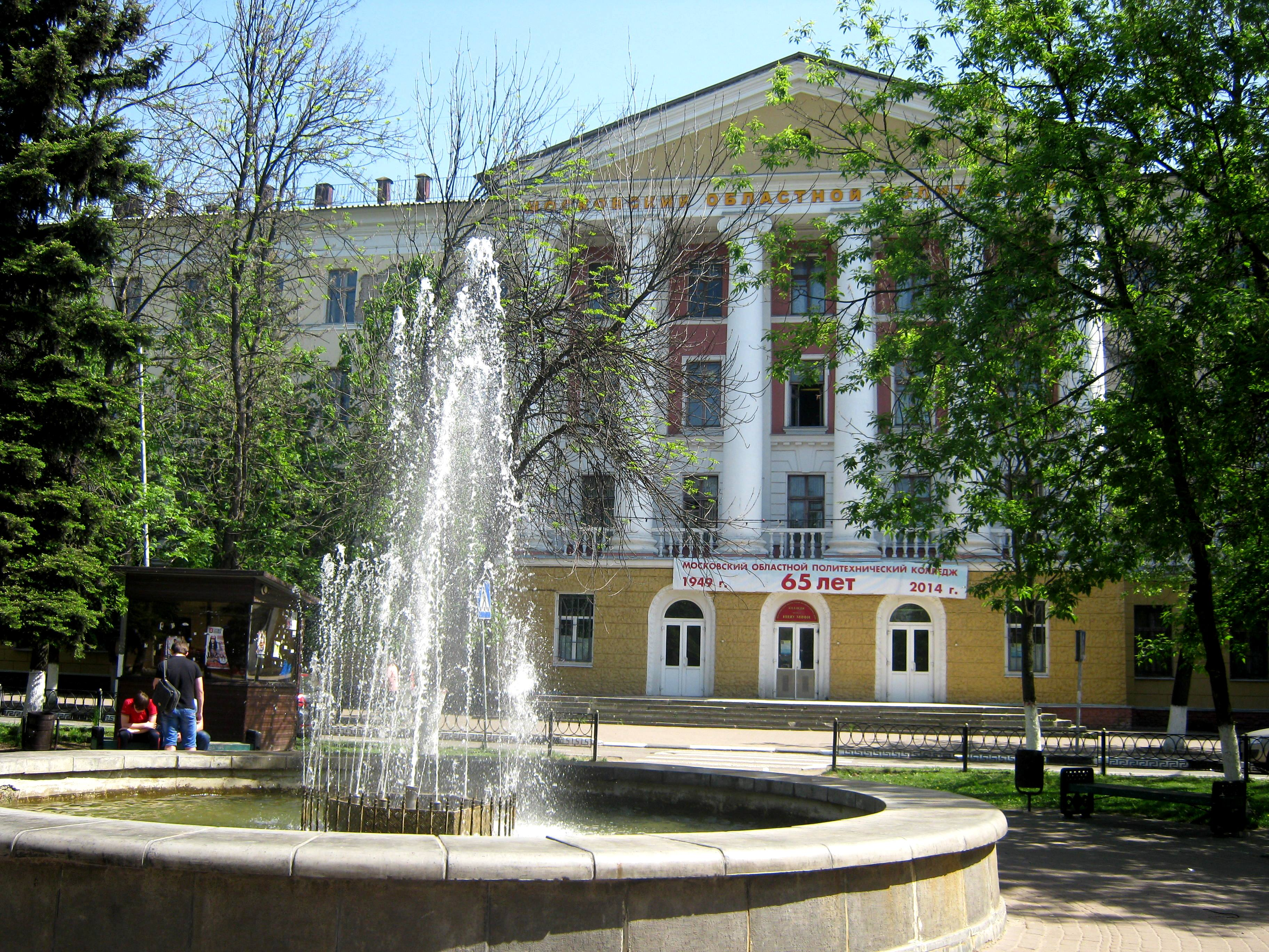 Московский областной политехникум (Электросталь)